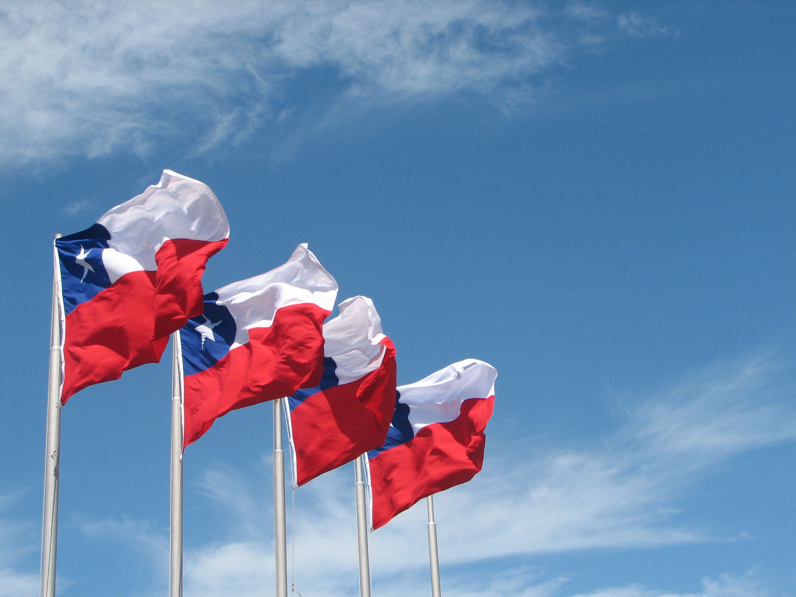 Chile flags in Puerto Montt